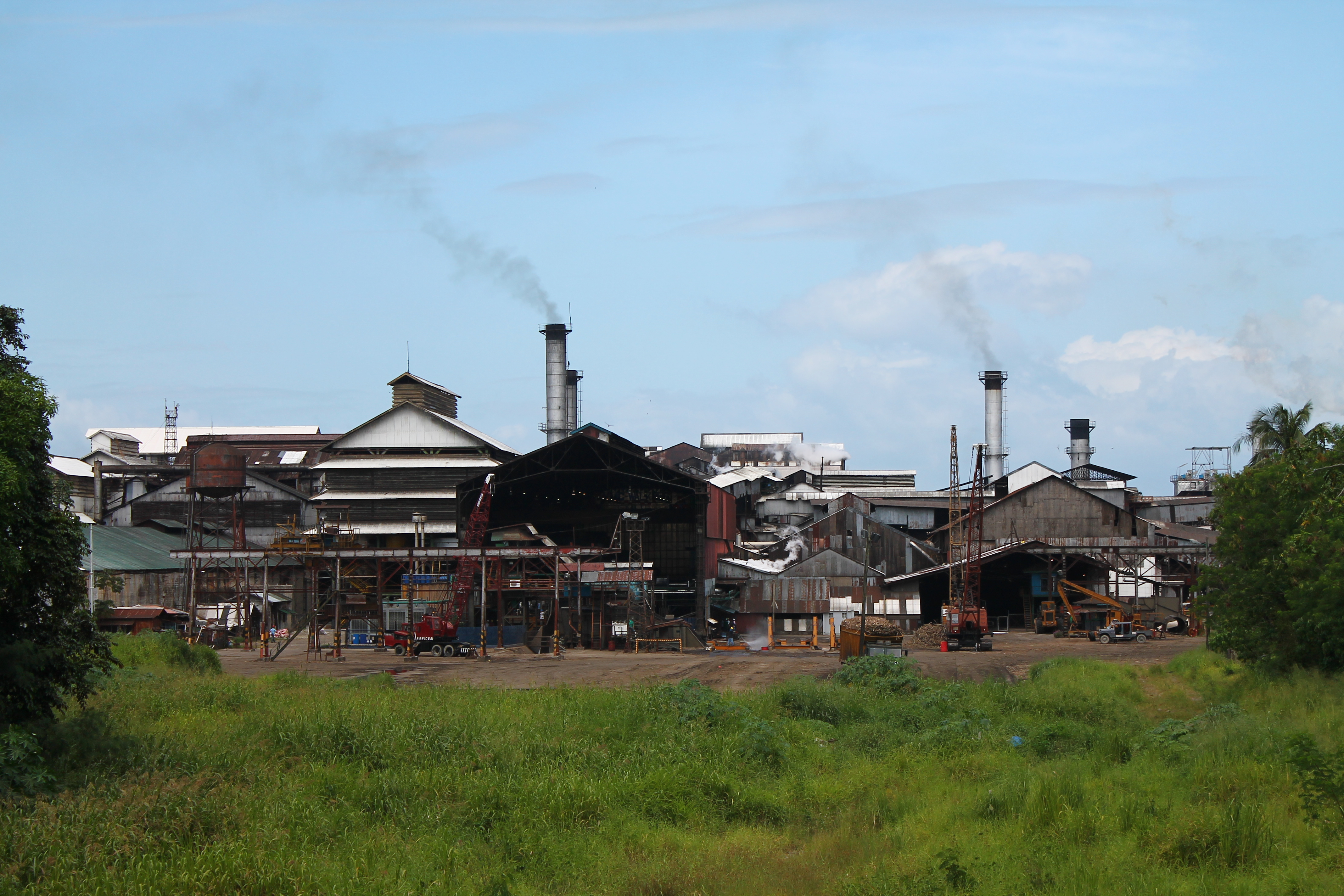 Victorias City, Negros Occidental